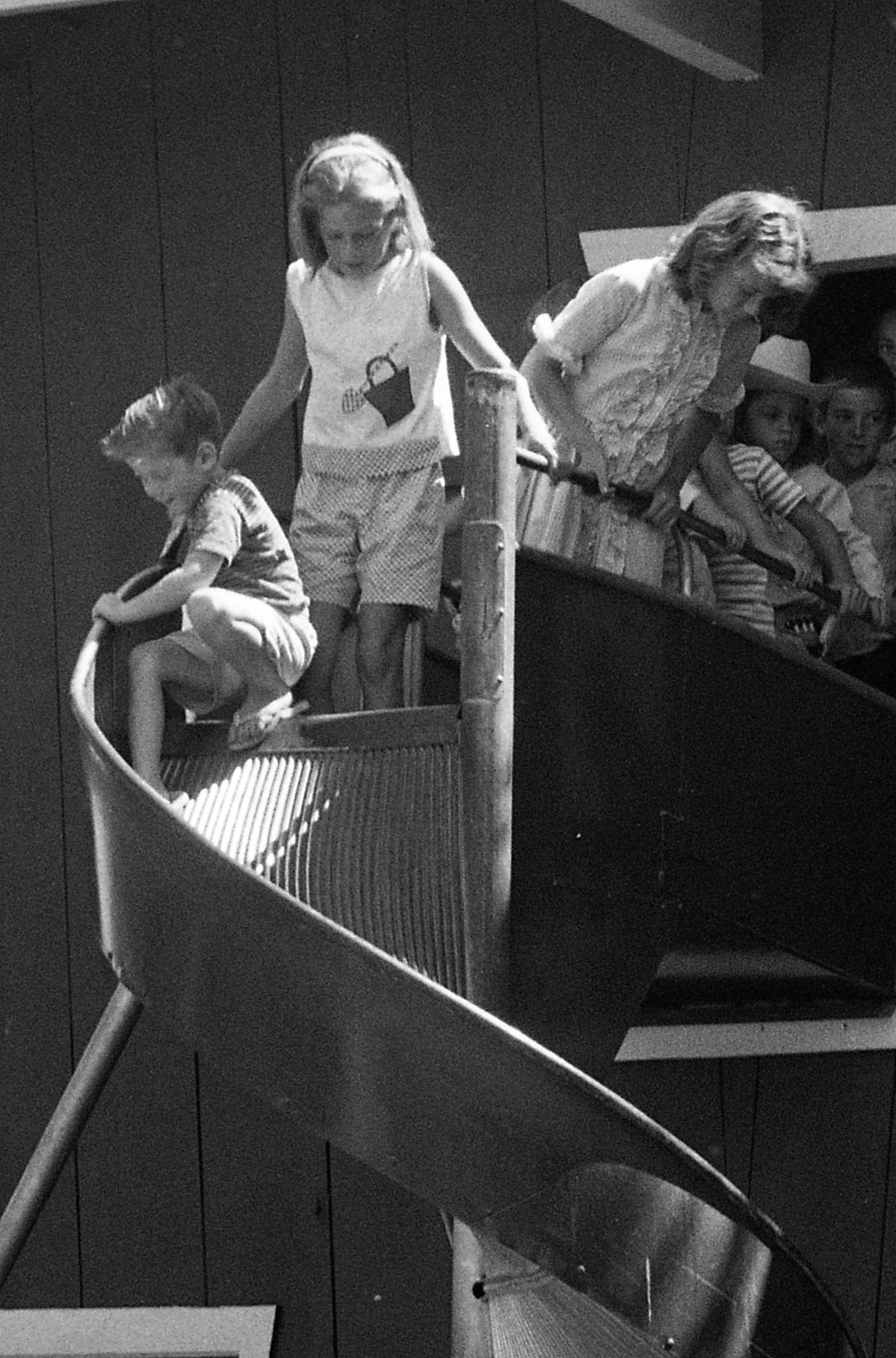 Two children preparing to use a curving playground slide, Sacramento, California, 1963 Other information Photo by George Garrigues.